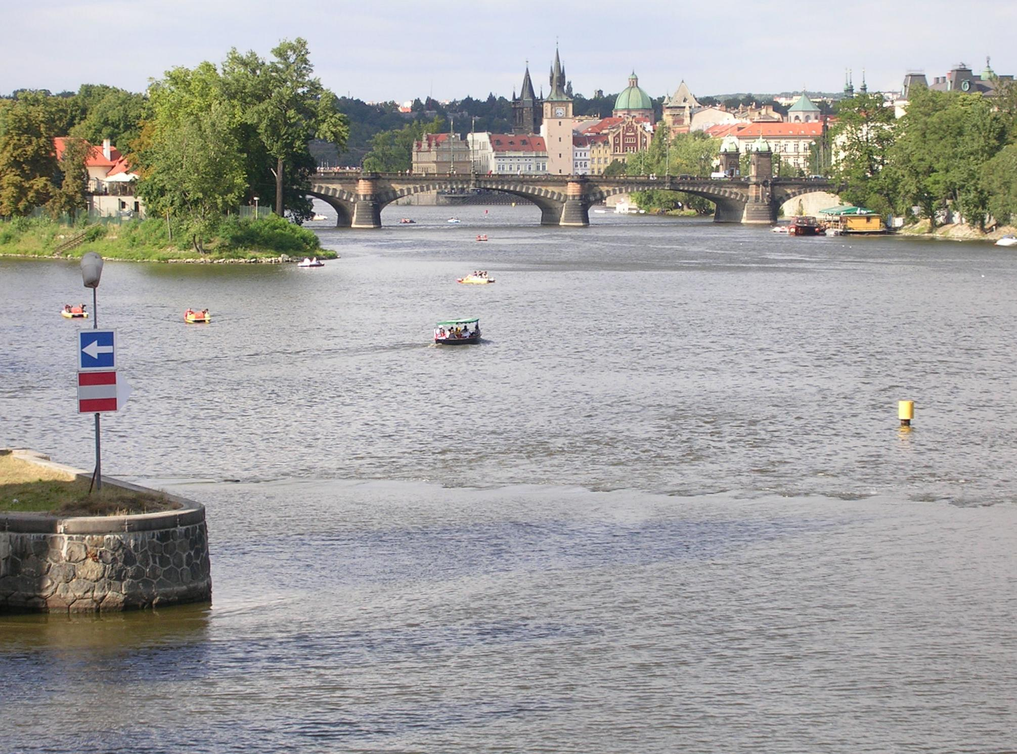 Prague, the Czech Republic.